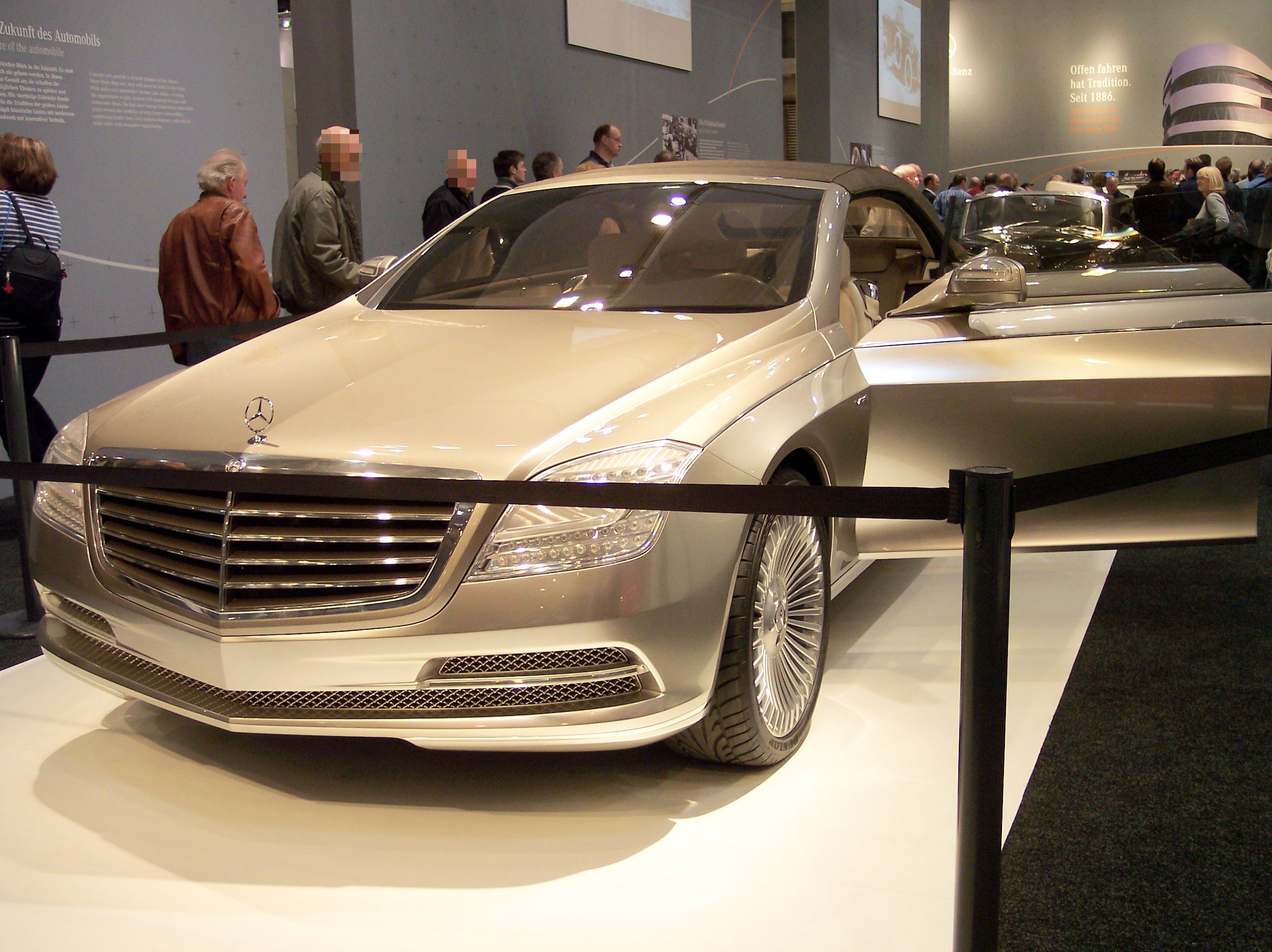 Techno-Classica 2007, Mercedes-Benz Concept Ocean Drive Convertible based on the Mercedes-Benz S 600 with twelve-cylinder-engine